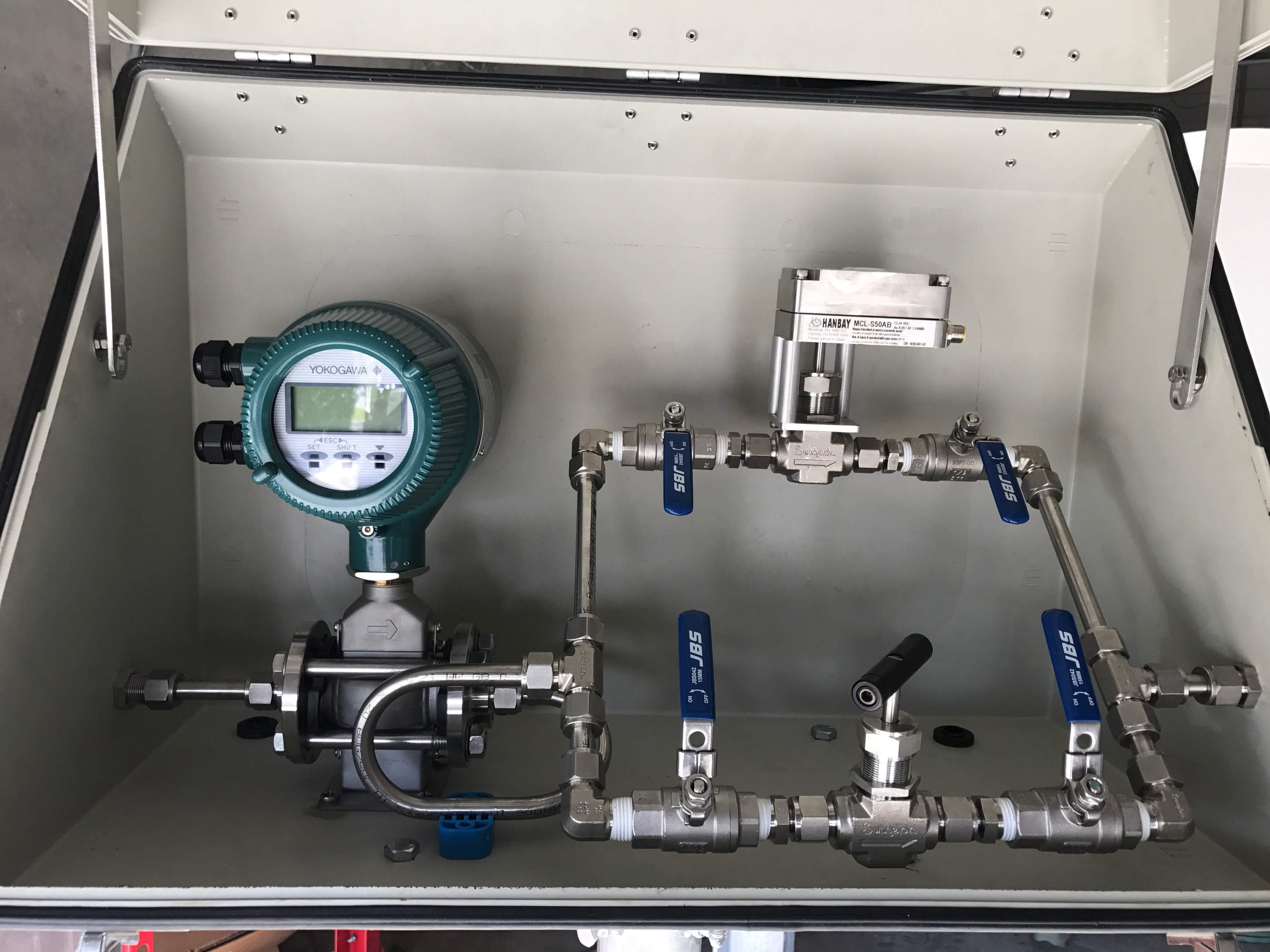 Electric valve actuator proportionally controlling a needle valve on fluid processing equipment